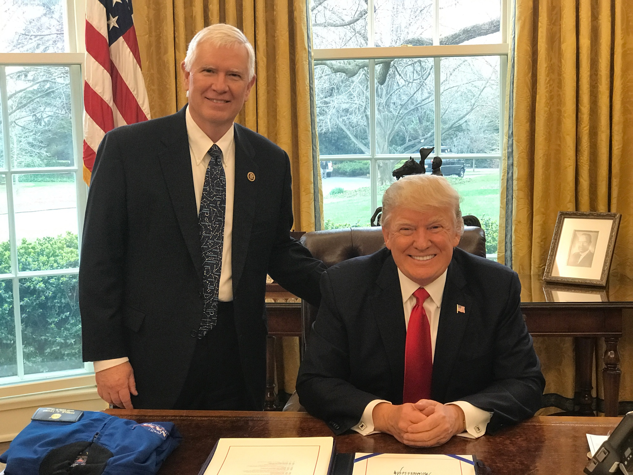 2017 NASA Authorization Bill Signing